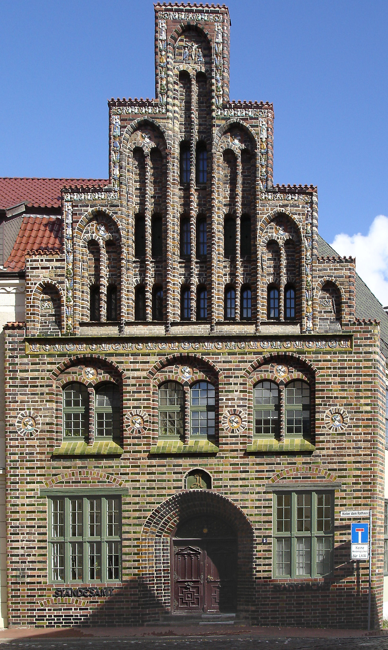 Kerkhoff-Haus Rostock / House of the family Kerkhoff in Rostock